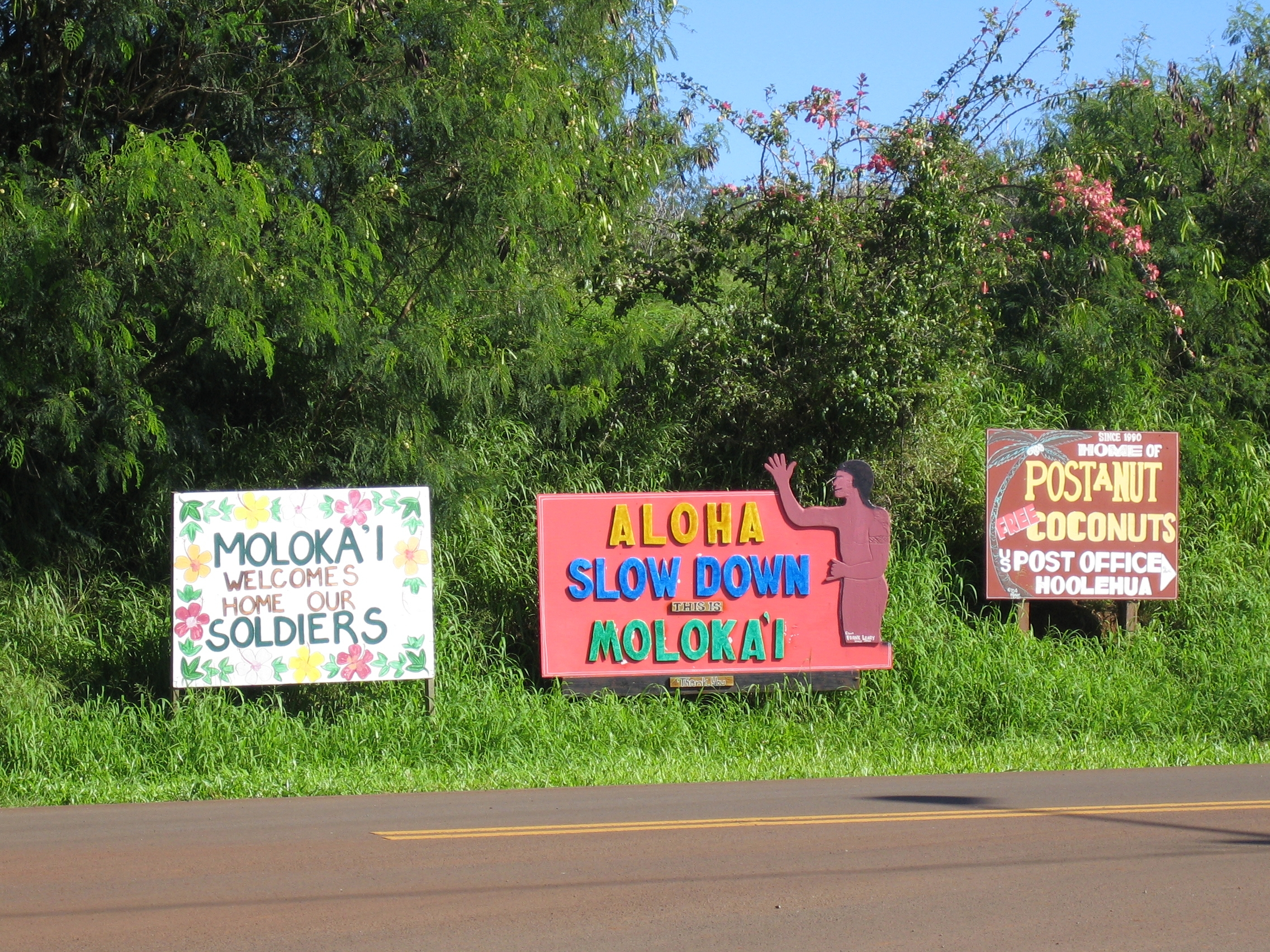 Sign greeting visitors to Moloka'i, Hawai'i at exit to airport. Taken January 22, 2005 by Jim Harper.